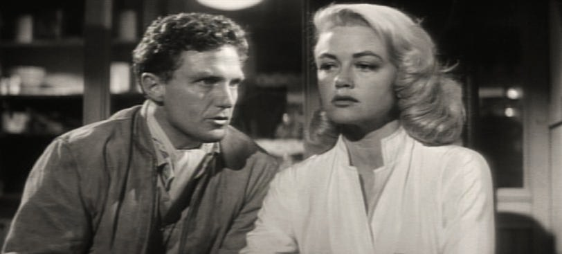 Robert Stack & Dorothy Malone in The Tarnished Angels - trailer (cropped screenshot)